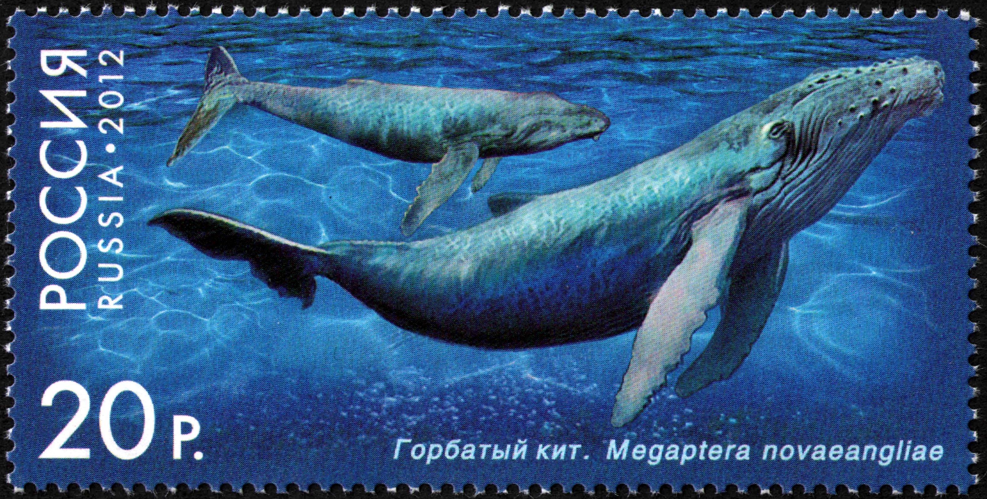 The Fauna of Russia. Cetacea. Humpback whale (Megaptera novaeangliae).The stamp of Russia, 20.00 Rubles, 8 February 2012, PTC Marka Catalogue No 1557, Michel No 1789. Coated paper. Offset printing. Perforation: comb 13½:13½. Size of the stamp: 65×32.5 mm. Print run: 220,000.